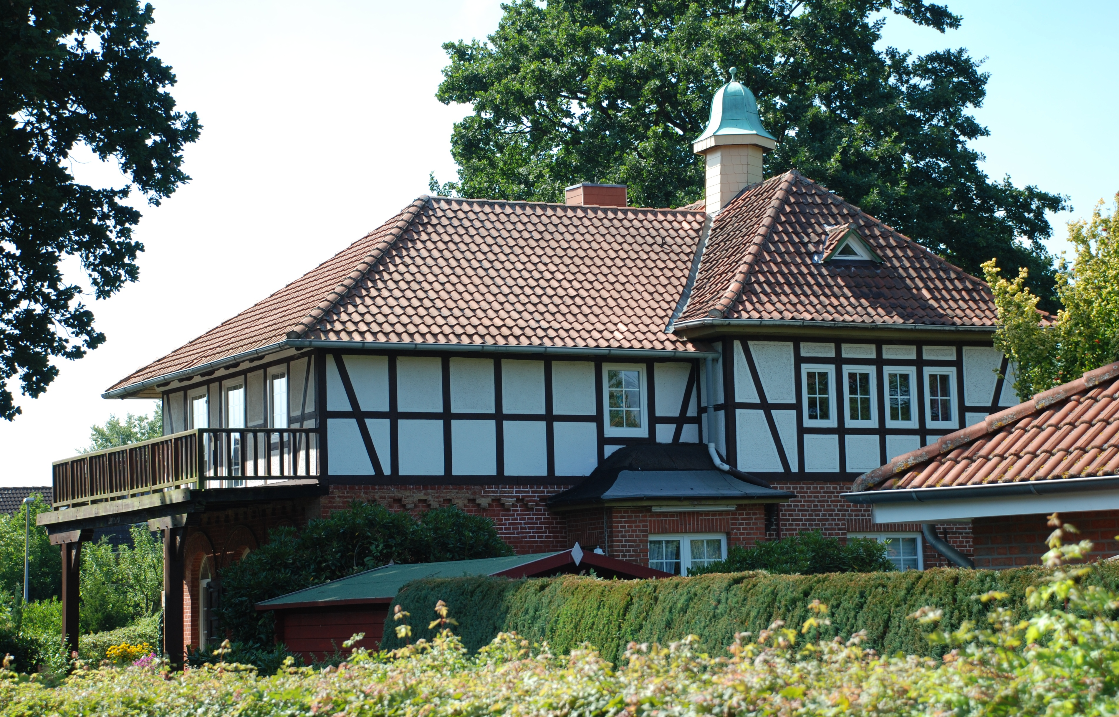 Home of Hinrich Braasch